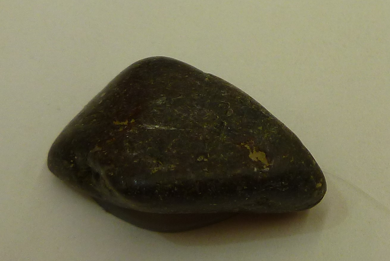 Sample of enzorit, a volcanic rock unique to Yenzor River in Yamalo-Nenetsky territory, Russia